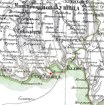 Fragment of map of Podillya province, type. Ilyina, 1871, 66x53 cm